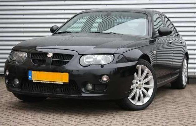 Front view of facelifted (2004-2005) MG ZT photographed in the Netherlands